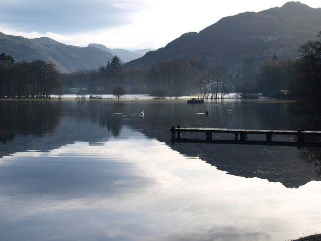 Frosty morning over Ullswater